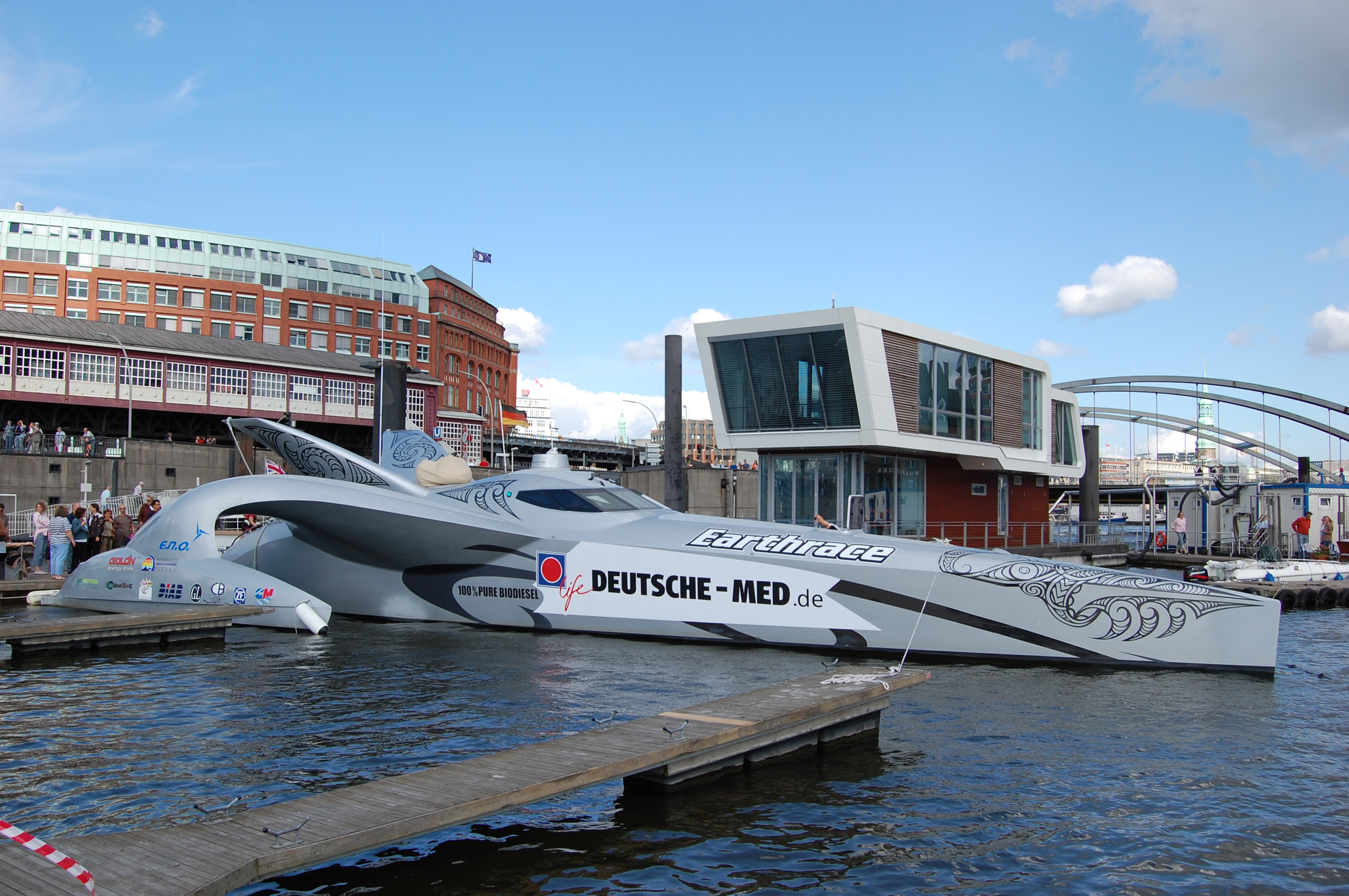 Alternative fuel powered trimaran at Port of Hamburg, Germany.